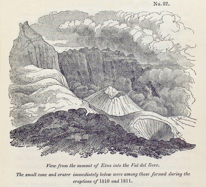 No. 22. View from the summit of Etna into the Val del Bove (Principles of geology; being an attempt to explain the former changes of the earth's surface, by reference to causes now in operation)